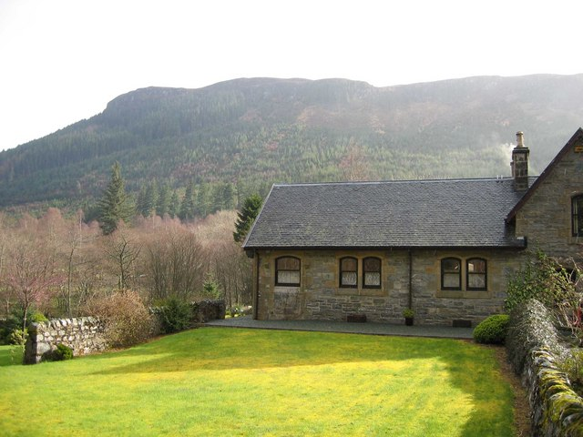 The Old School House - Invermoriston Looking south to Sron na Muic.